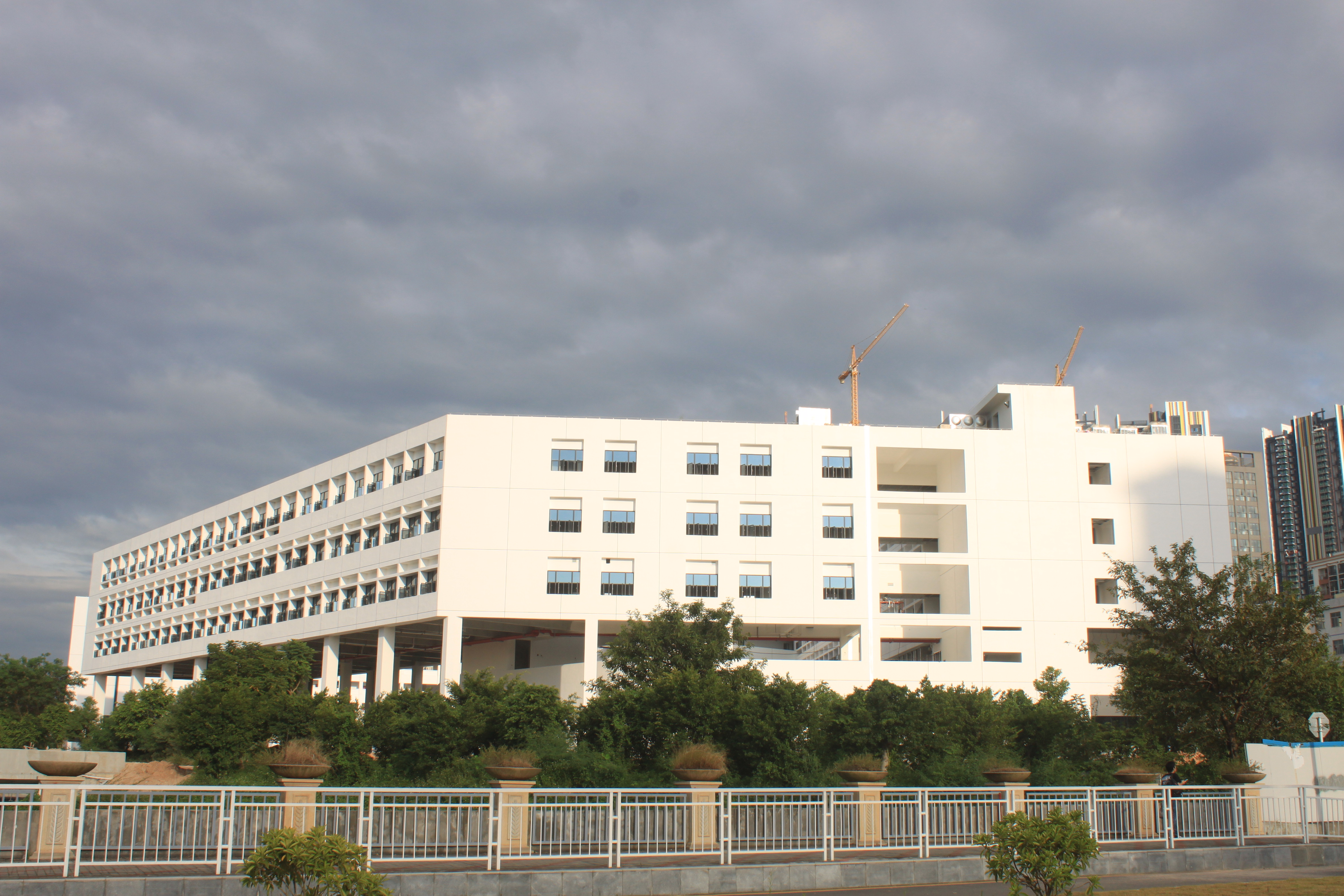 Xili Campus of Shenzhen University is being constructed.